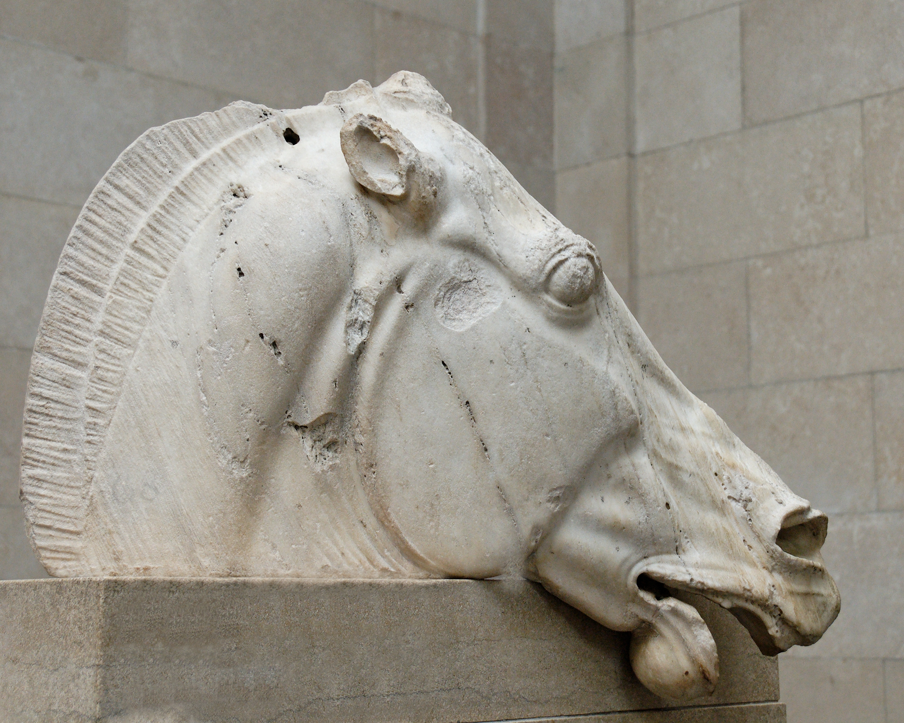 Head of a horse from Selene's chariot. Parthenon east pediment, ca. 447–433 BC.